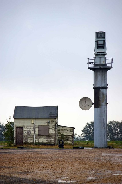 Rivenhall Radar. One Marconi’s experimental radar towers on the former 229376 looking very sad and dilapidated. A large area of the airfield is currently being converted into a waste recycling facility.